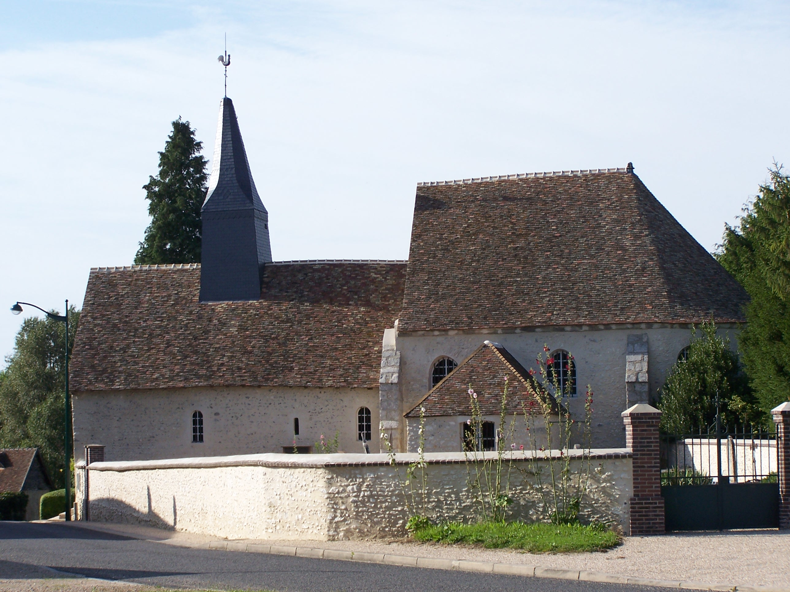 Church of Dannemarie (Yvelines, France)